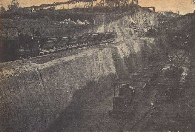 Earthworks during the construction of the Leixões Railway, in northern Portugal. This image was published on the Gazeta dos Caminhos de Ferro magazine no. 1112, of the 16th April 1934, and scanned by the Hemeroteca Municipal de Lisboa.